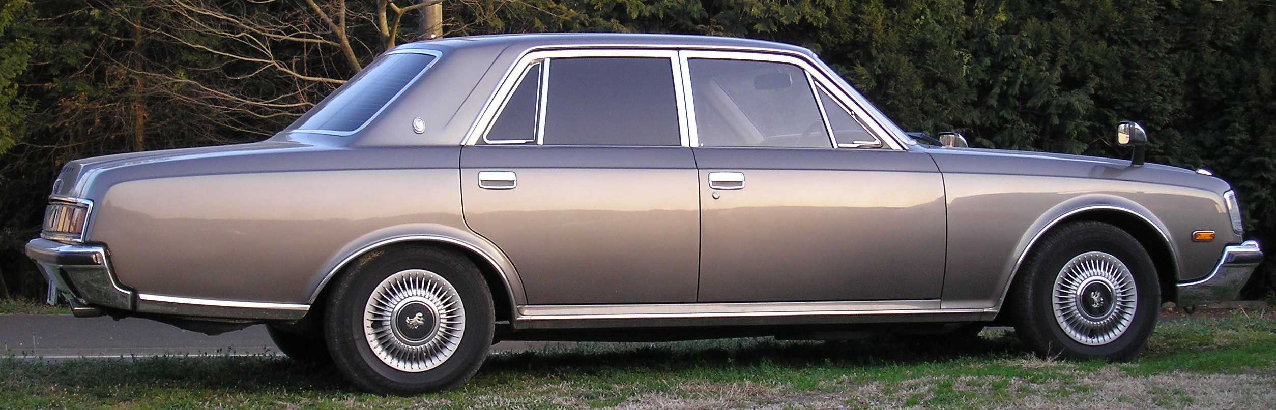 Toyota Century, photographed in Chiba, Japan